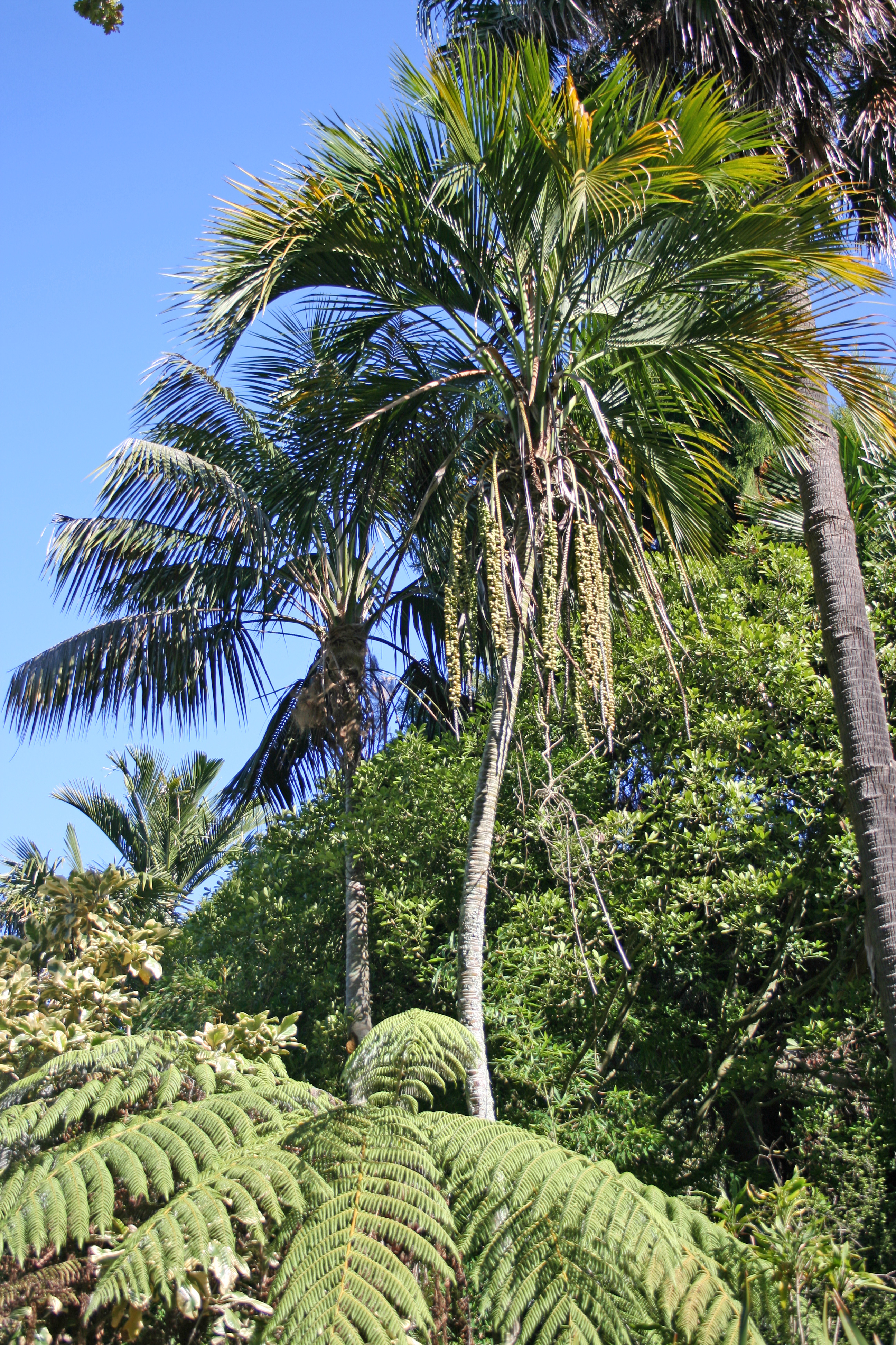 Howea forsteriana left, and Howea belmoreana centre, palms endemic to Lord Howe Island, growing in cultivation at the University of Auckland, New Zealand.